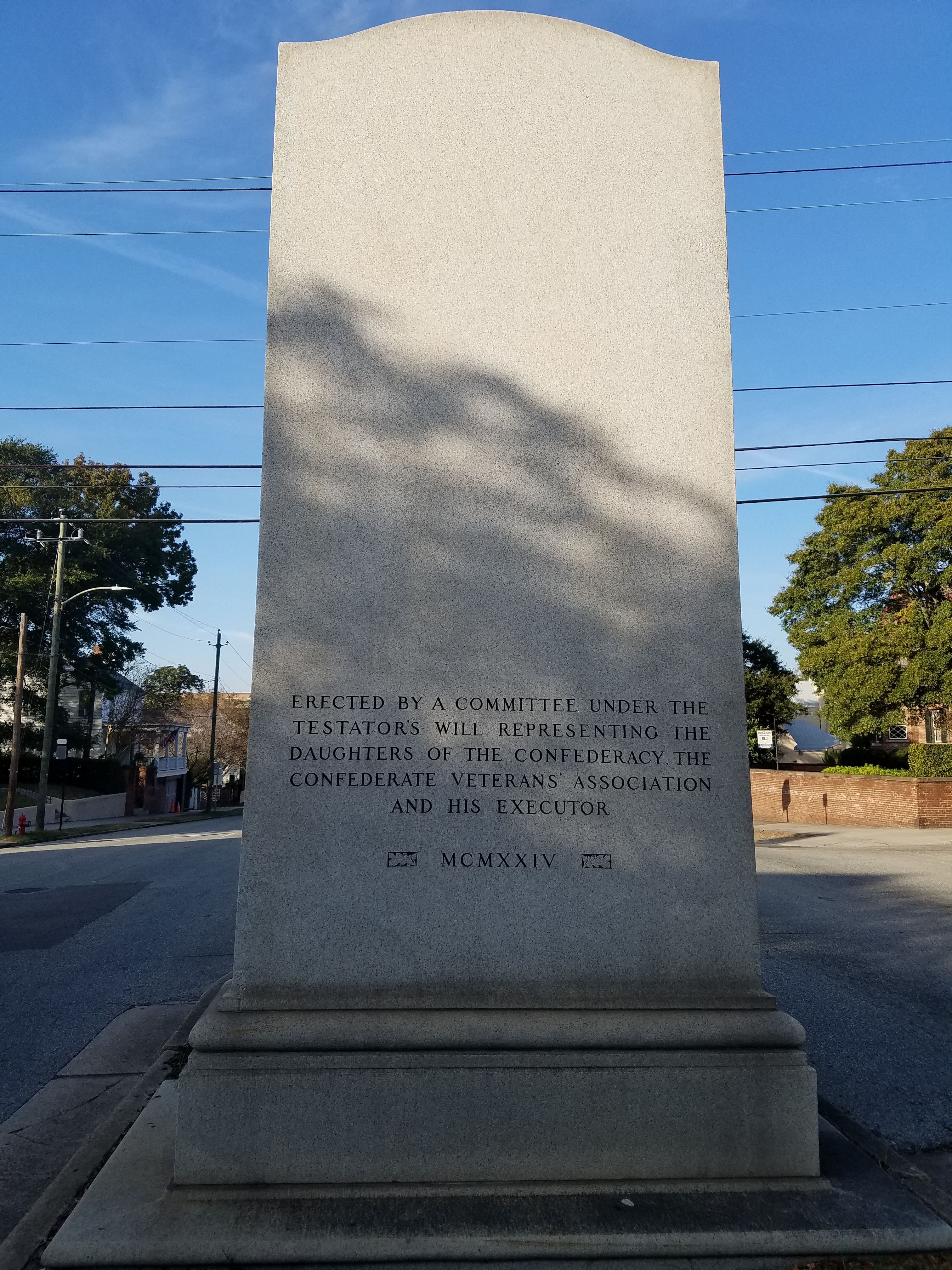 The back side of the Confederate Memorial